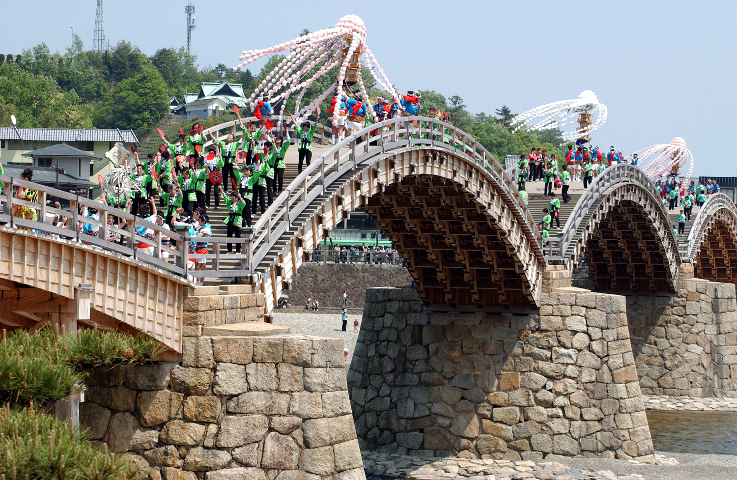 Thousands of visitors congregated at the 28th annual Kintai Bridge Festival, to soak up the sun and Japanese culture while they watched the Daimyo and Young Warriors Procession Parade, April 29. While a group of local Japanese volunteers, dressed as Samurais, shot at targets enacting olden times, the parade moved across the 210-meter long Kintai bridge.